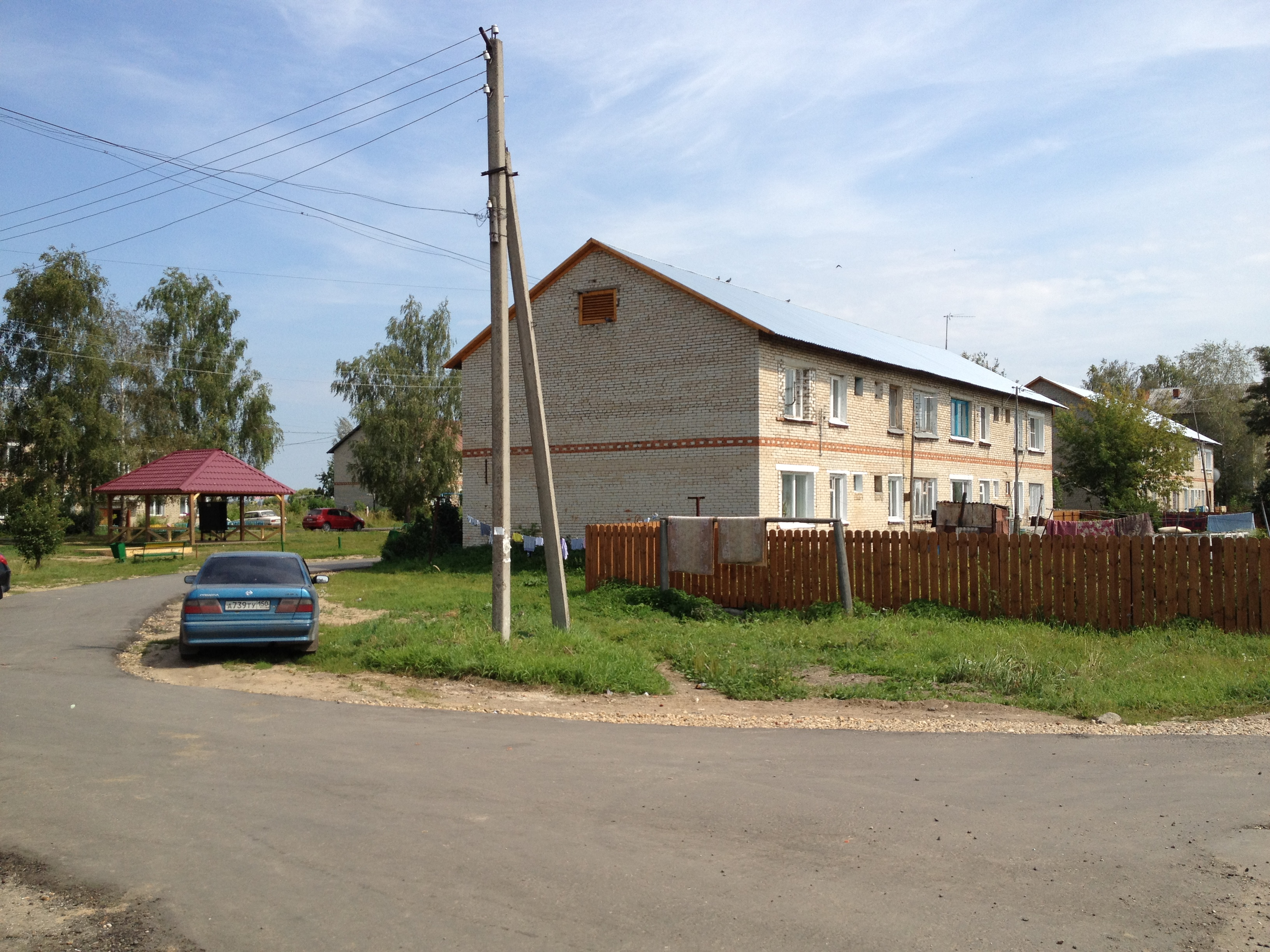 Some of apartament blocks in Novogulevo (Moscow Oblast).